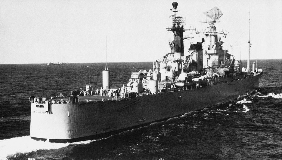 The U.S. Navy command ship USS Northampton (CC-1) underway in the North Atlantic, in 1960.